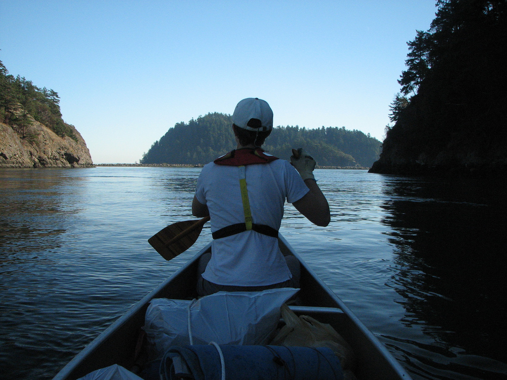 Scout sea, paddling.